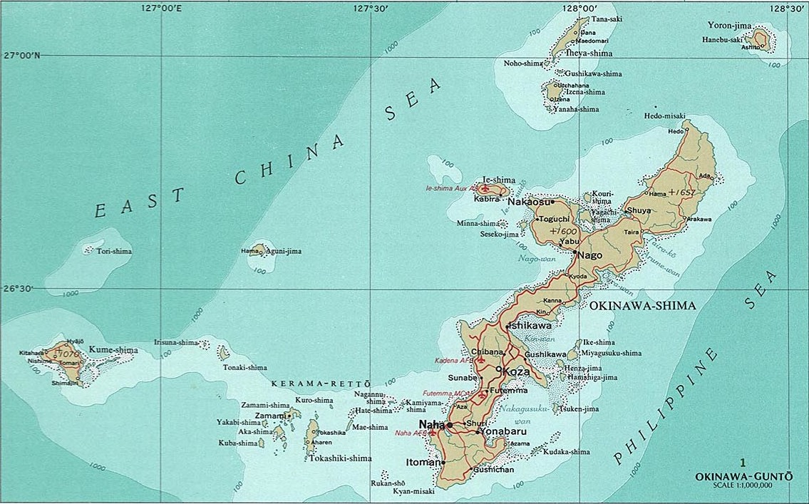 National Atlas of the United States, page "Pacific Outlying Areas", with map insets: Okinawa-Guntō